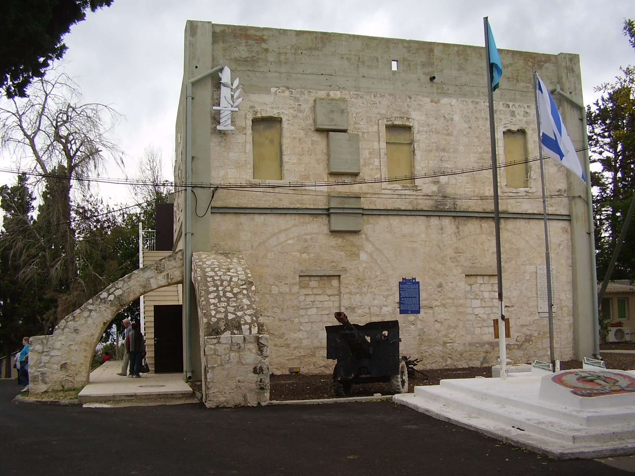 Haganah museum in Juara